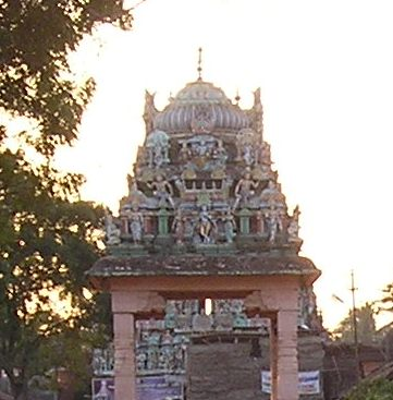 Parimala Ranganathar